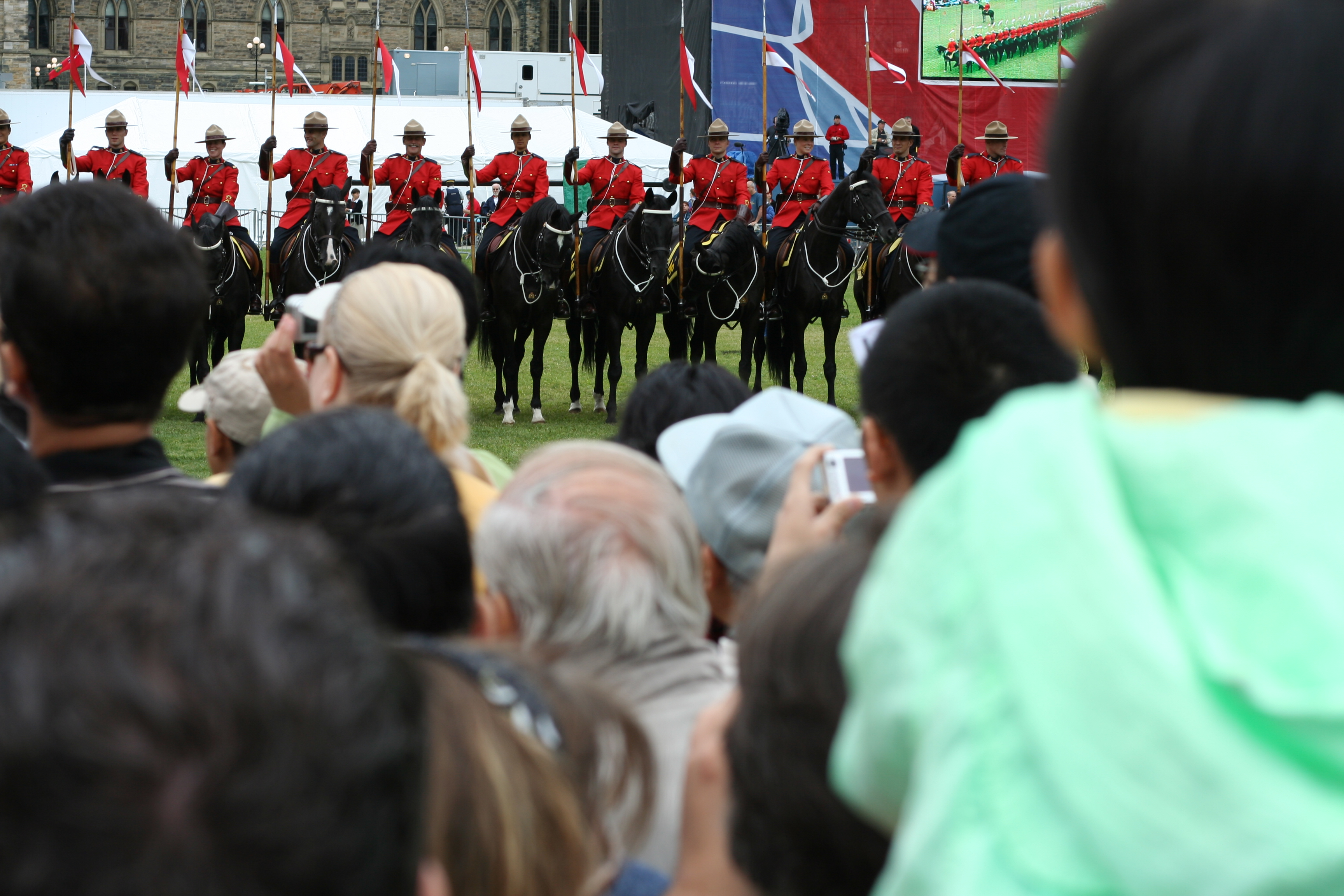 RCMP Musical Ride at 2007 Canada Day celebrations in Ottawa